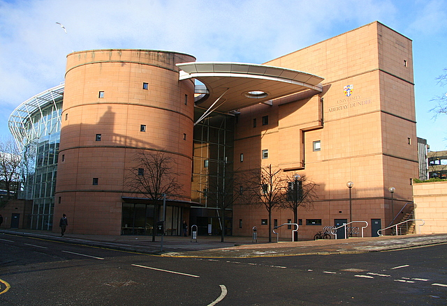 Library, University of Abertay Dundee, Awarded "Best Building" in the 1998 Scottish design awards.